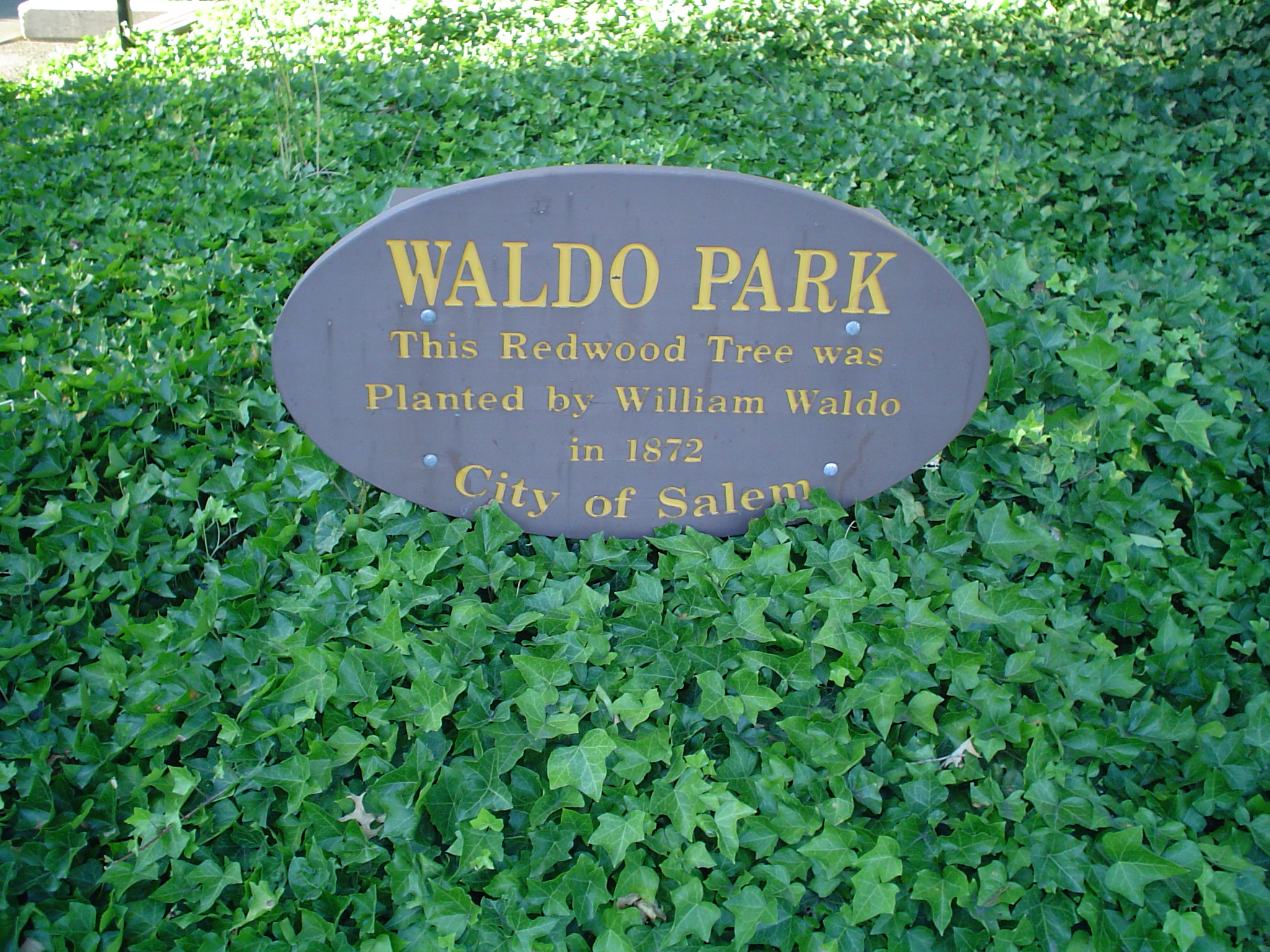 If you redistribute this image anywhere else please list me as the original photographer. Thank you. Andrew Parodi 03:13, 4 July 2007 (UTC)